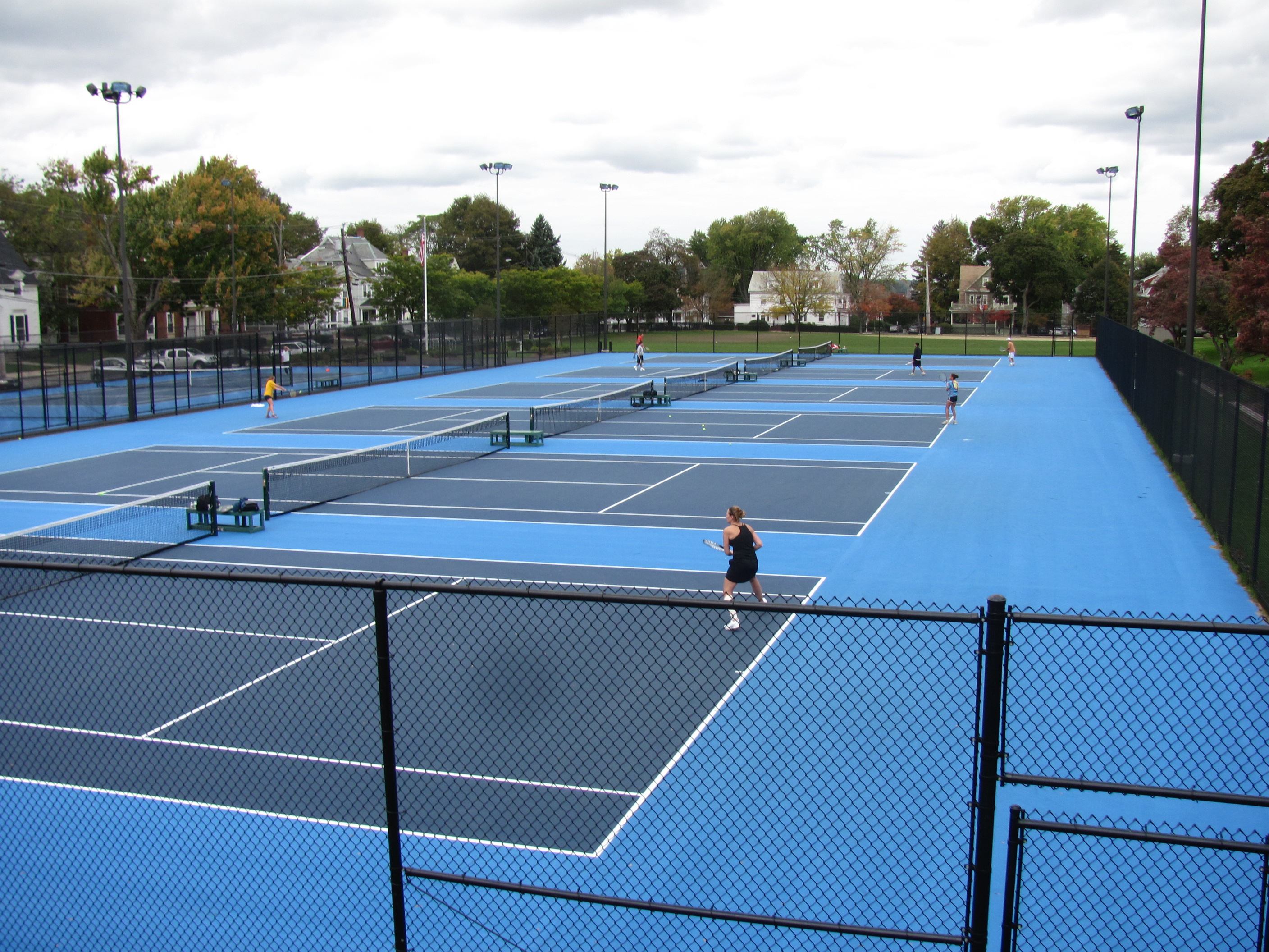 Tennis Courts, Tufts University, Medford Massachusetts